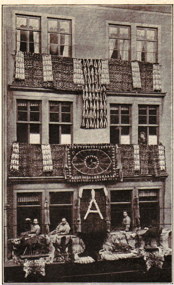 Decoration de la maison F. Maerz, à Leipzig, à occasion de la visite du roi de Saxe en cette ville en 1904.